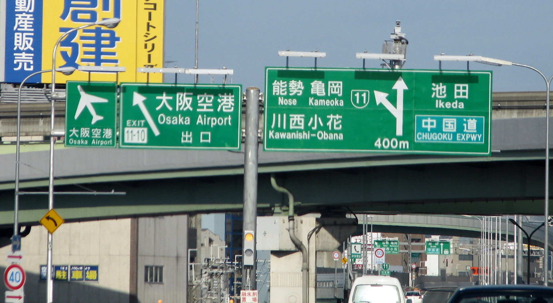 Hanshin Expressway Osaka Airport IC